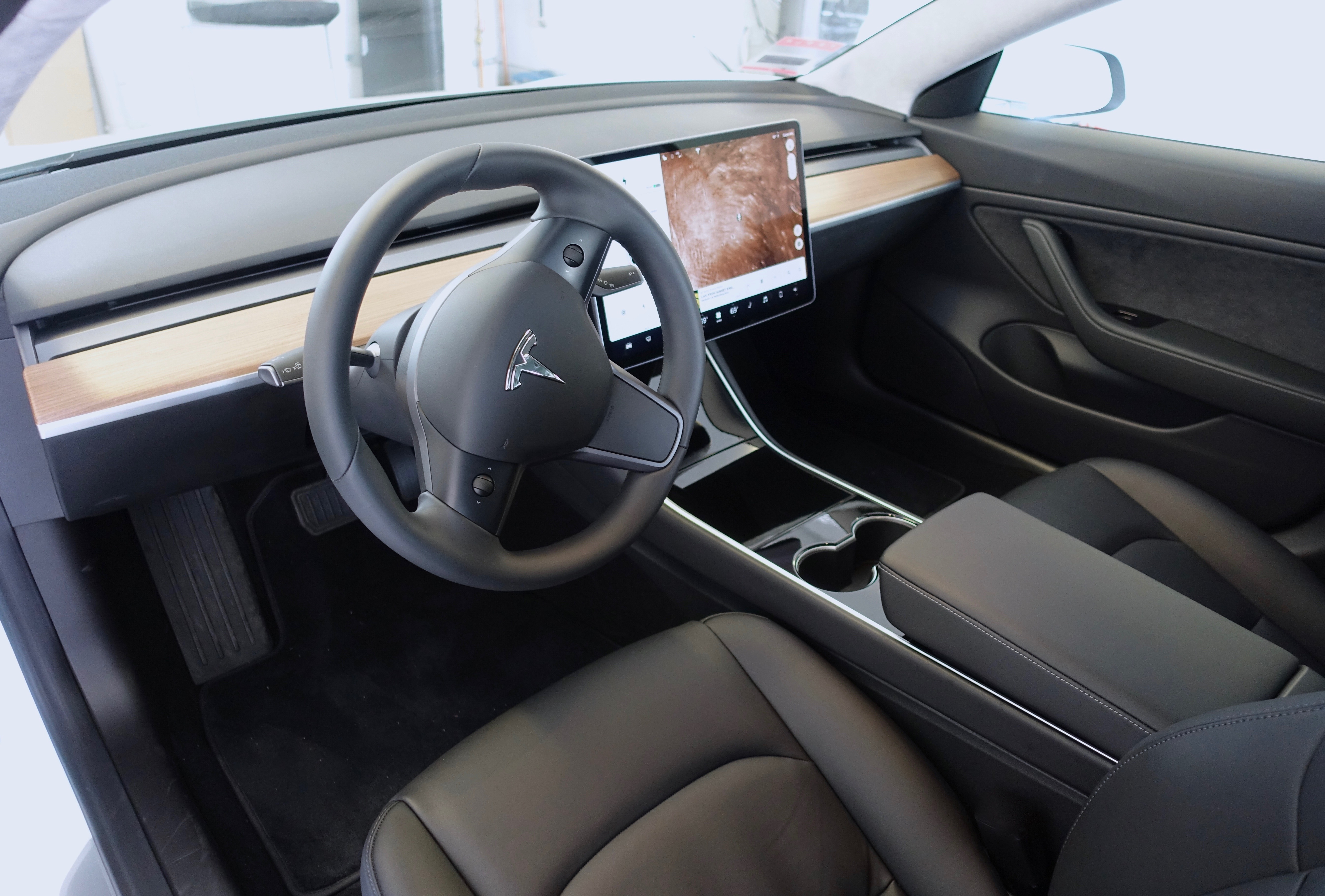 Interior (barren dashboard) of the production Tesla Model 3.